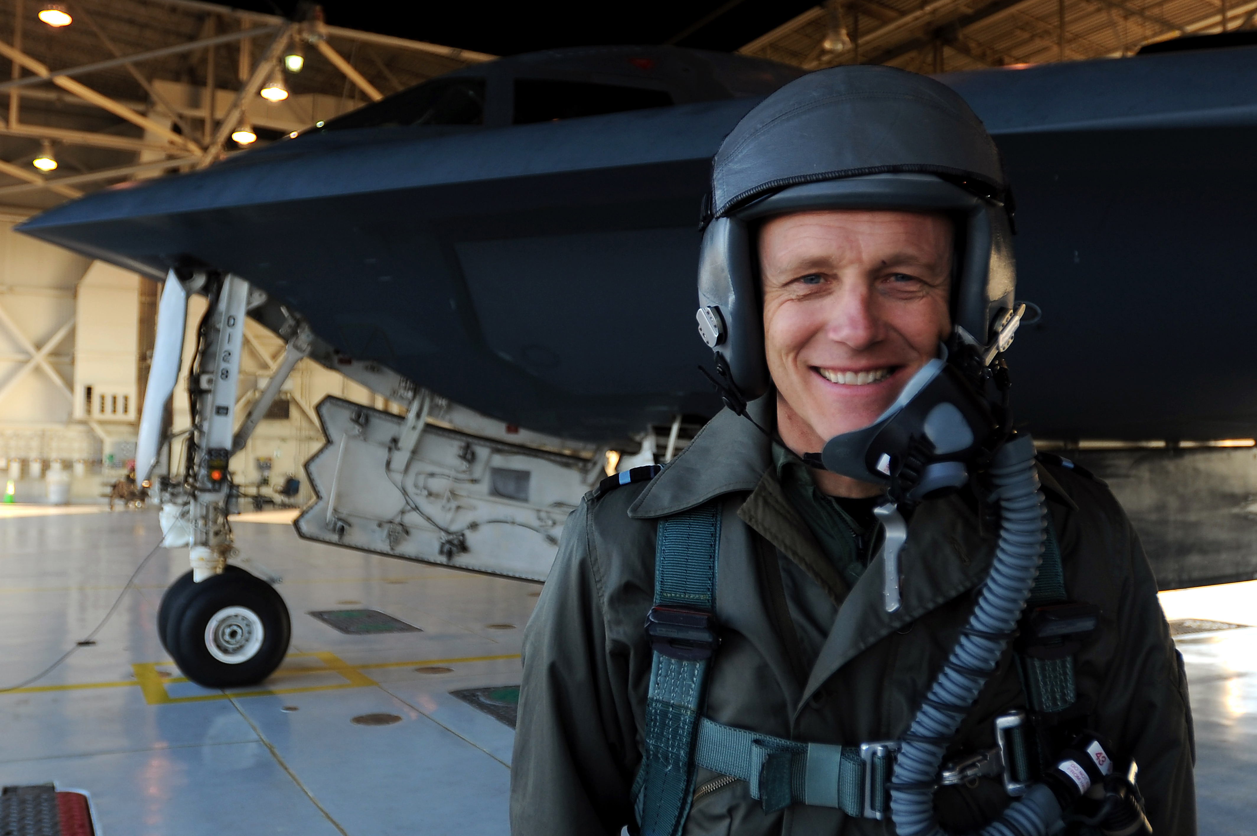 Royal Air Force Air Vice-Marshal Michael Harwood, in front of the U.S. Air Force B-2 Spirit bomber prior to his flight, Nov. 23. AVM Harwood visited Whiteman to gain a better understanding of the Global Strike Command mission and have the chance to fly the B-2.